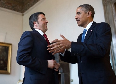 President Barack Obama talks with Prime Minister Matteo Renzi following their joint press conference at Villa Madama in Rome, Italy, March 27, 2014.